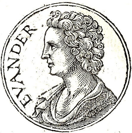 In Roman mythology, Evander or Euander was a deific culture hero from Arcadia, Greece, who brought the Greek pantheon, laws and alphabet to Italy, where he founded the city of Pallantium on the future site of Rome, sixty years before the Trojan War. He instituted the Lupercalia.